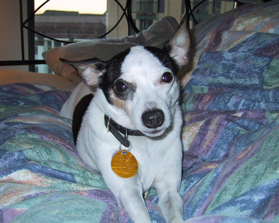 Frederick an 8 year old Toy Fox Terrier